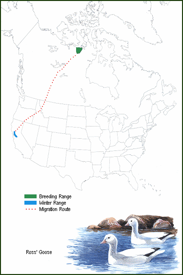 Migration route of the Ross's Goose (Anser rossii)